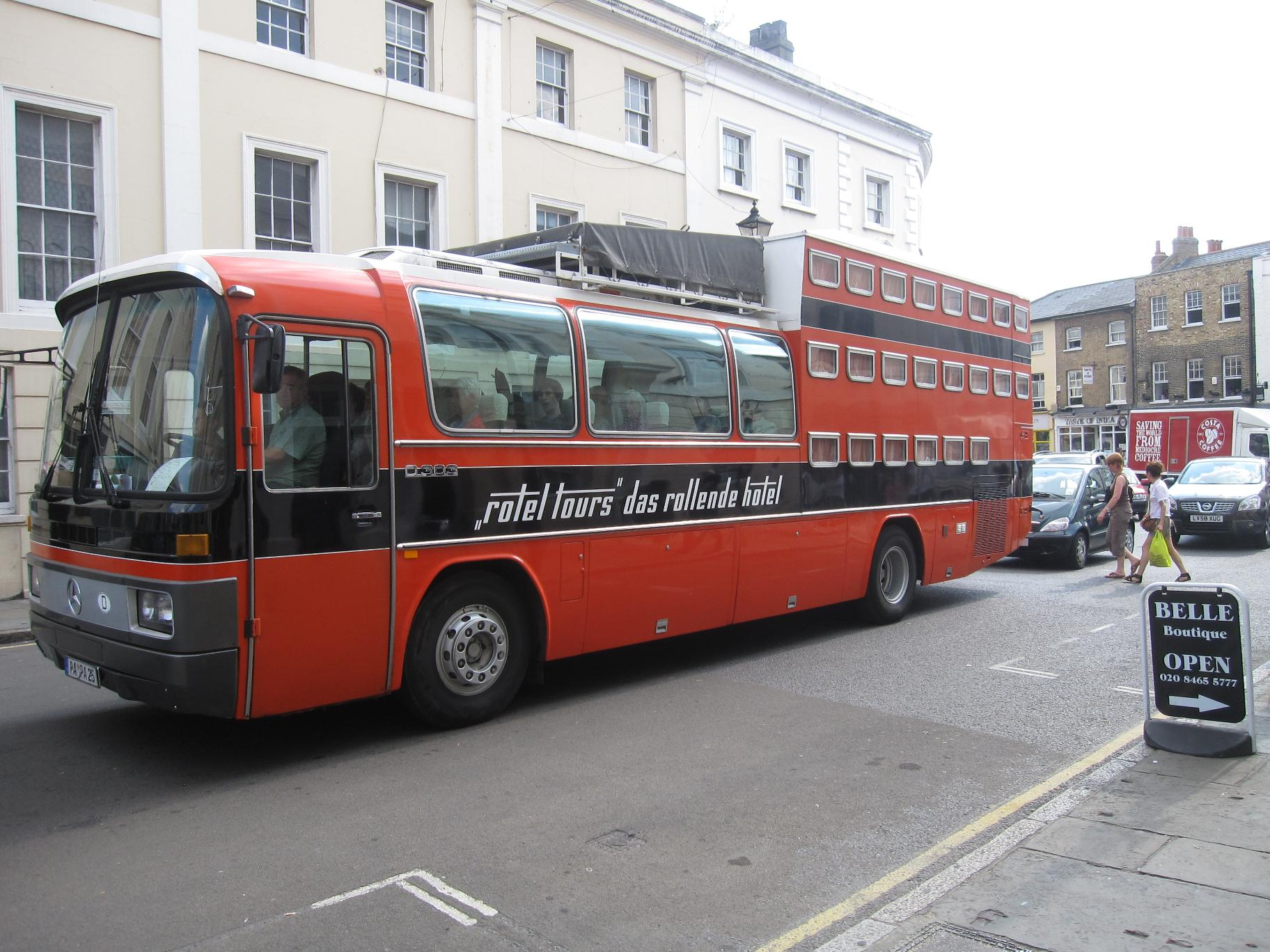 A rolling Rotel Bus in Greenwich